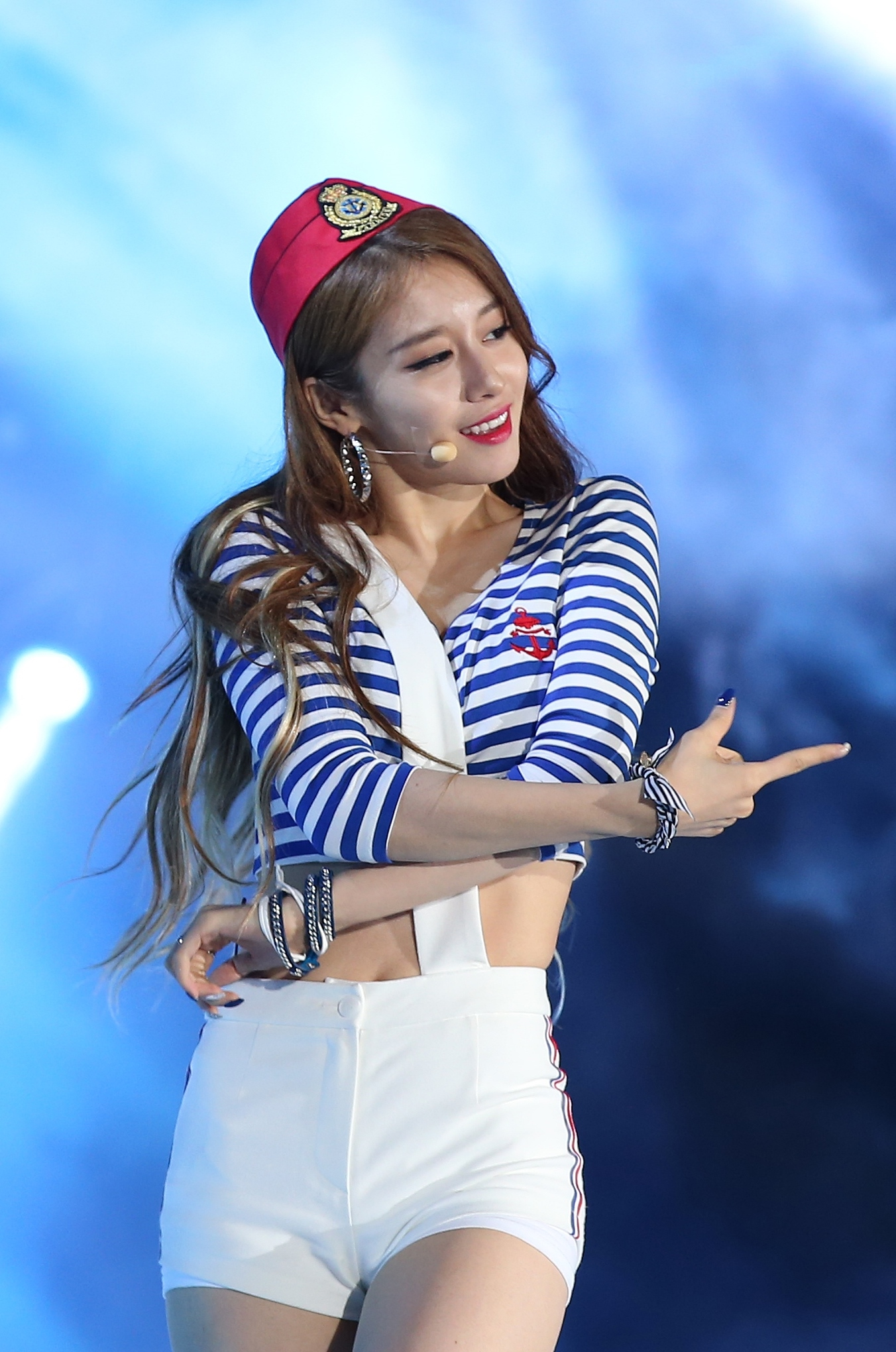 2015 Summer K-POP Festival August 4, 2015 Seoul Plaza Ministry of Culture, Sports and Tourism. Korean Culture and Information Service. ( Official Photographer : Jeon Han. The photograph may not be used in any type of commercial, advertisement, product or promotion that in any way suggests approval or endorsement from the government of the Republic of Korea.-------------------------------------------------썸머 K-POP 페스티벌2015-08-04문화체육관광부해외문화홍보원코리아넷전한